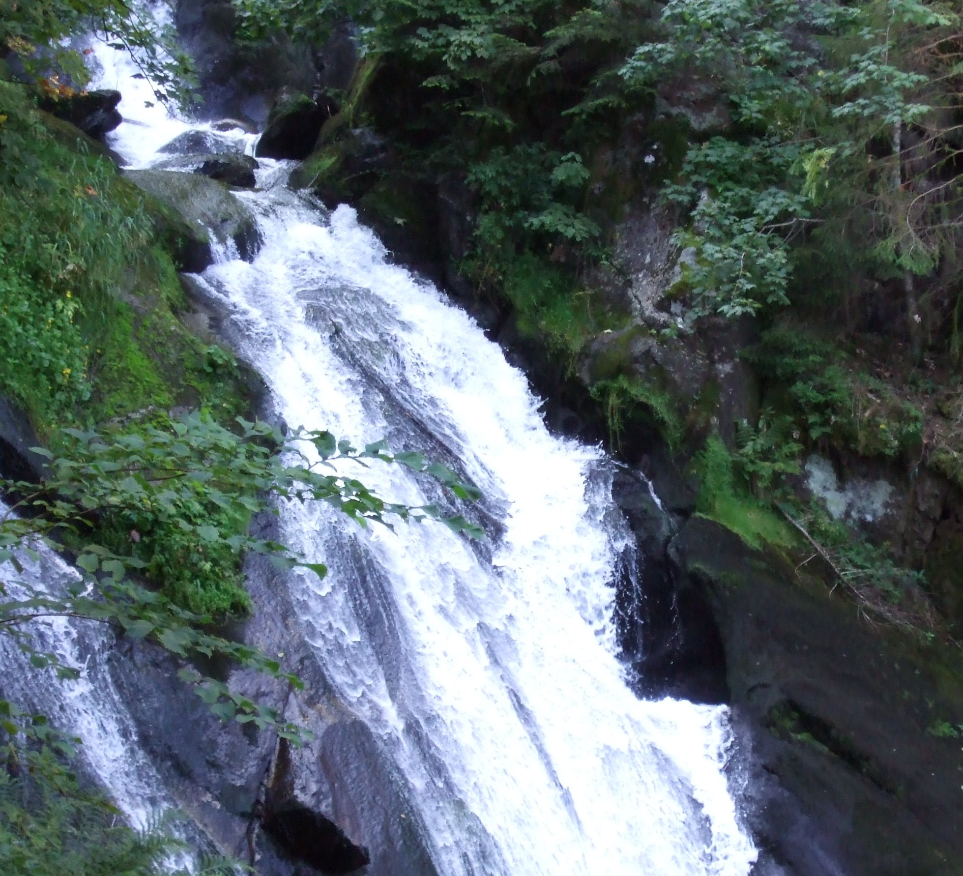 waterfall of Triberg, black forest, Germany